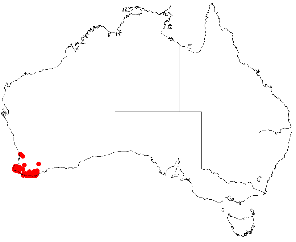 Hakea linearis Occurrence data downloaded from Australasian Virtual Herbarium on 22 November 2018 using